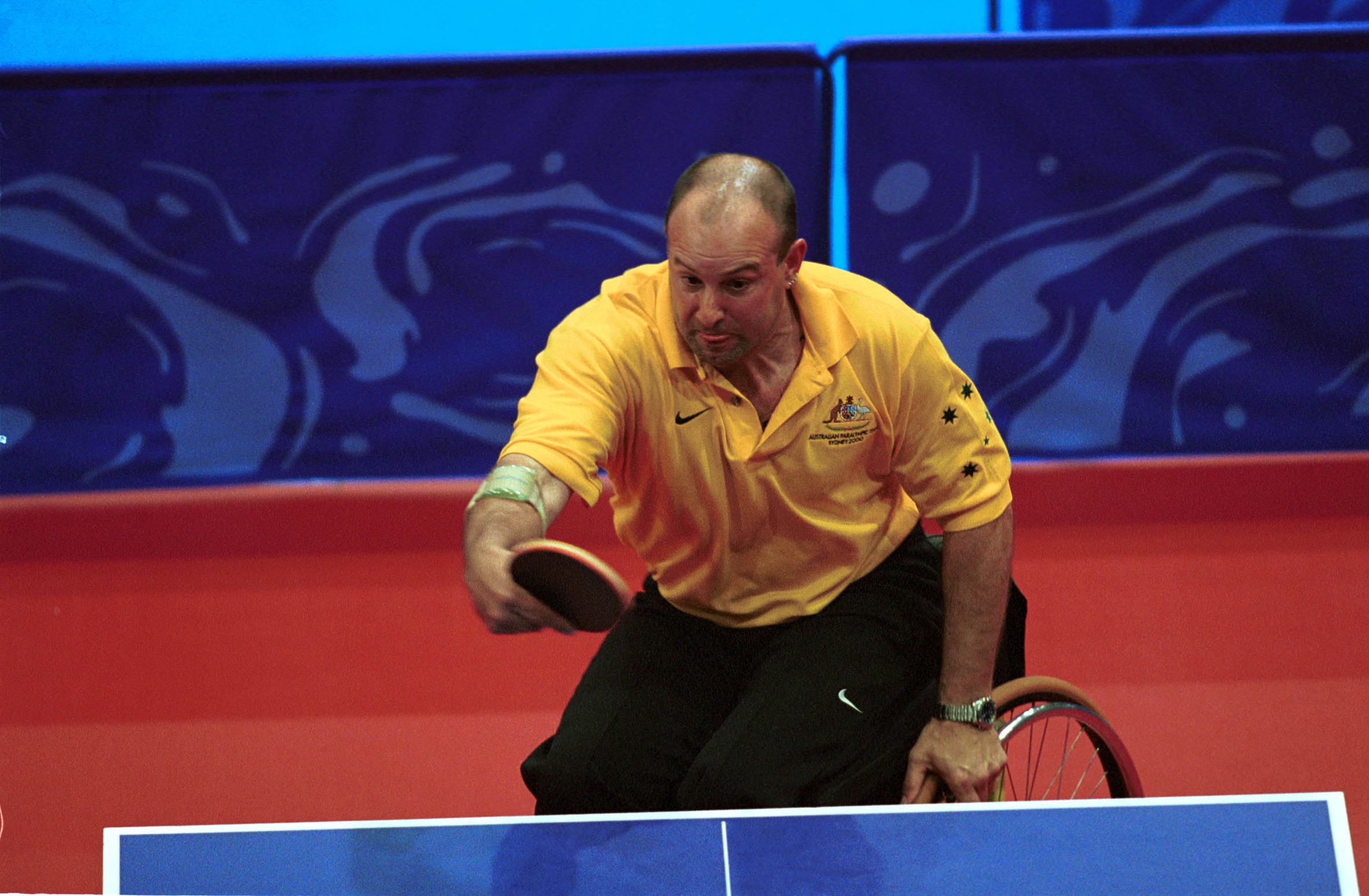 Australian table tennis player Ross Schurgott during 2000 Sydney Paralympic Games match